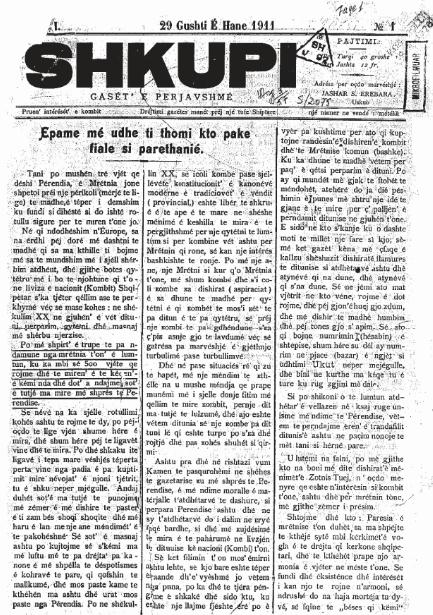 Shkupi Newspaper, N 1, 29 August 1911